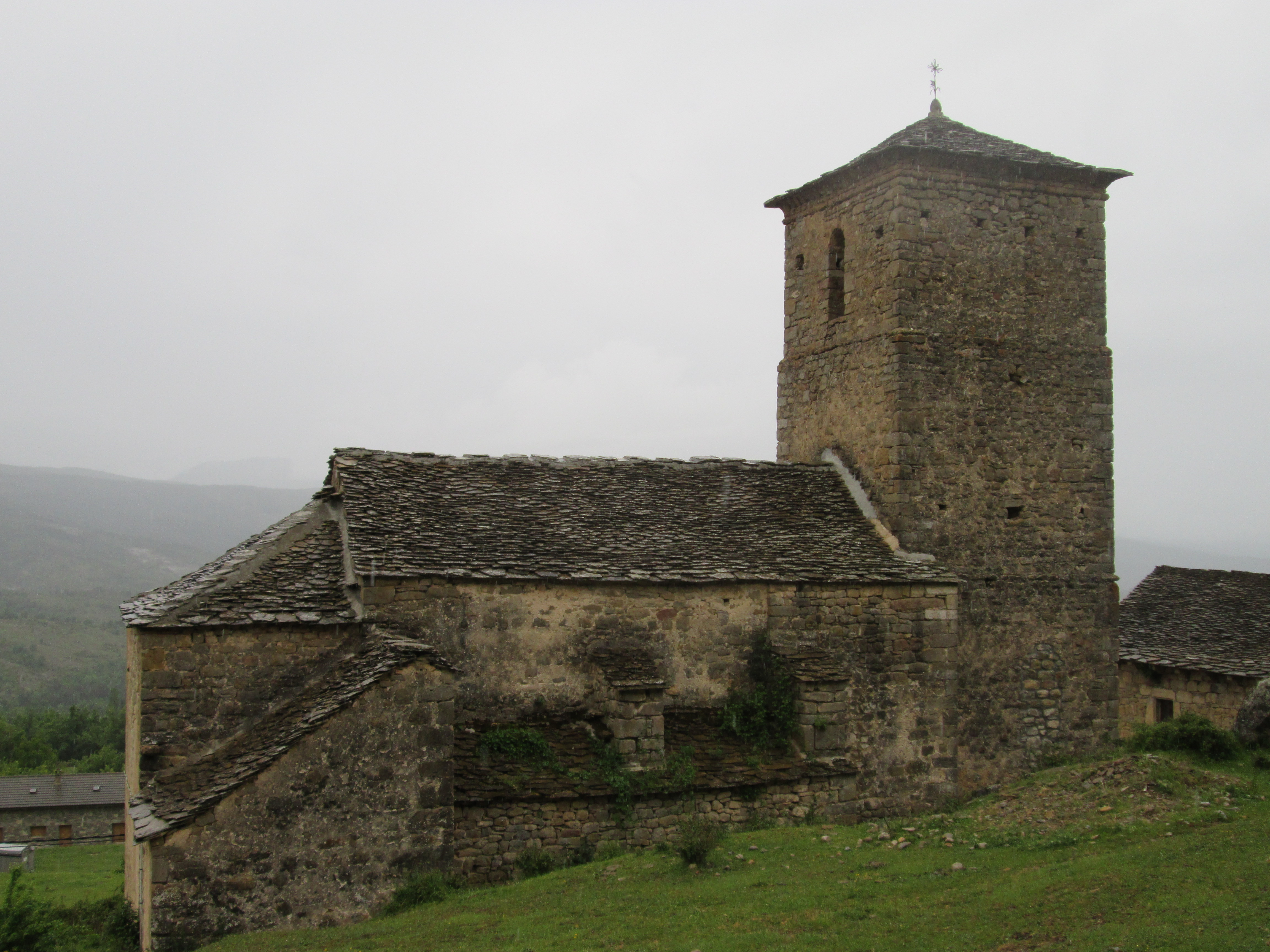 Church of Laguarta (Sabiñanigo, Aragon), May 2014.